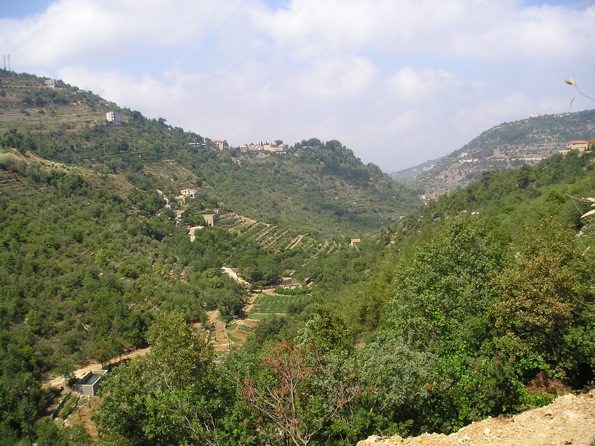 Chouf mountains, Lebanon - a valley between Beiteddine and Deir al-Qamar.